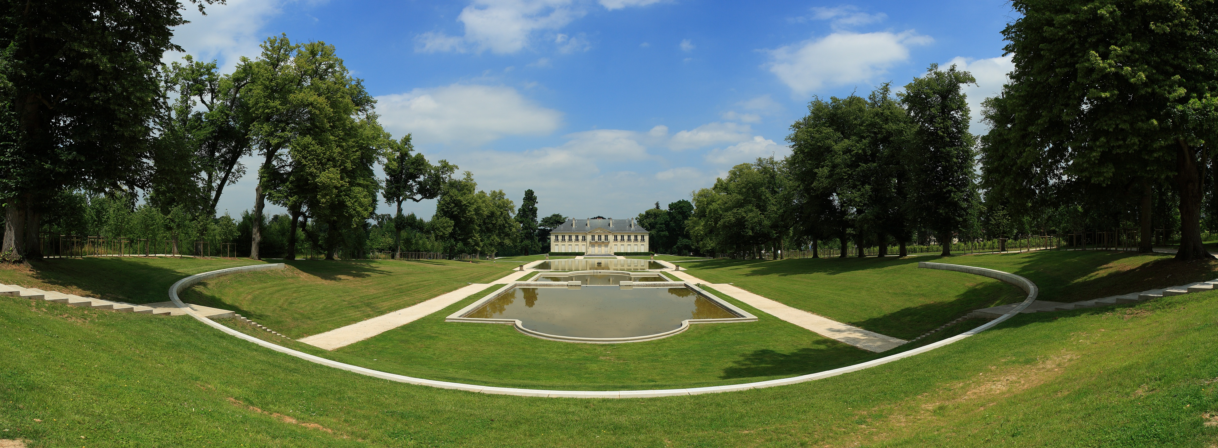 Rentilly castle, Rentilly, France